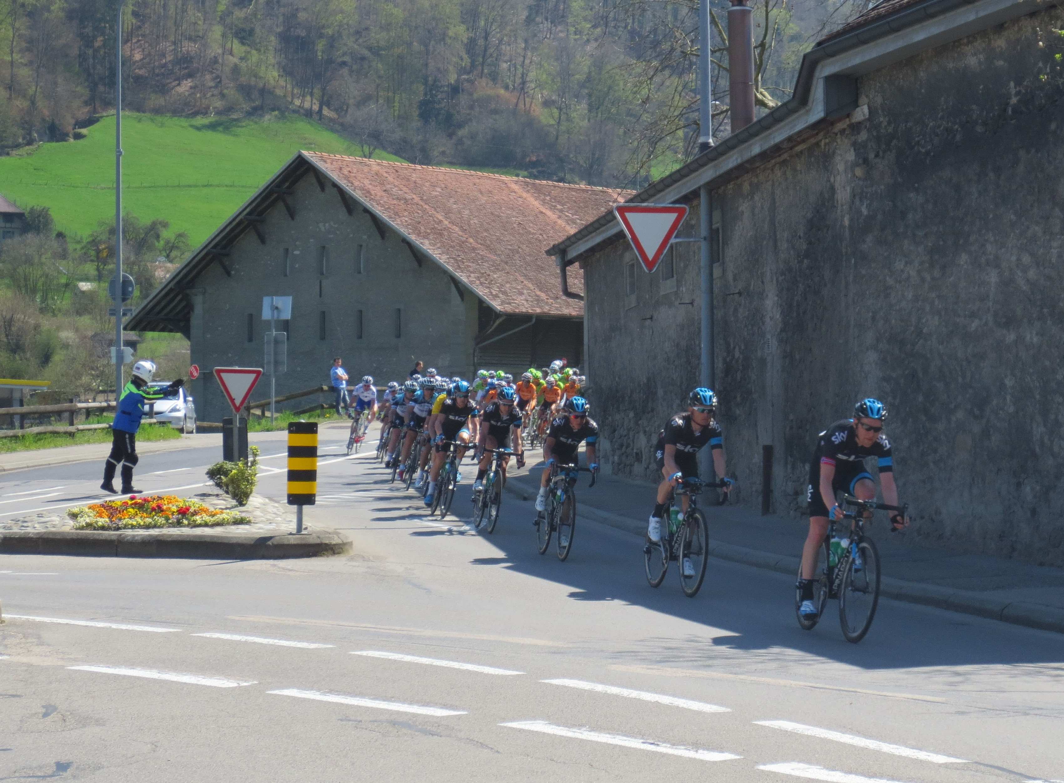 Tour de Romandie 2013 : 1st stage in Moudon